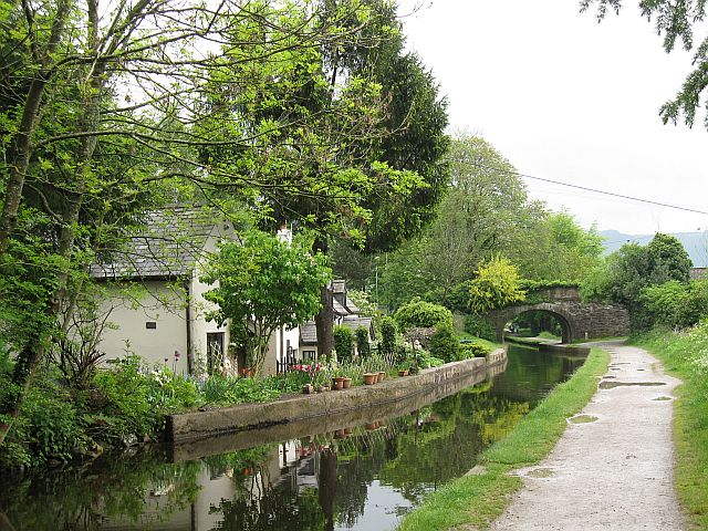 Canal, cottage and bridge at Llangollen. This attractive scene is to be found near the Royal International Pavilion at Llangollen.